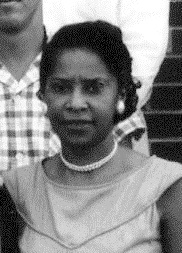 NASA human computers